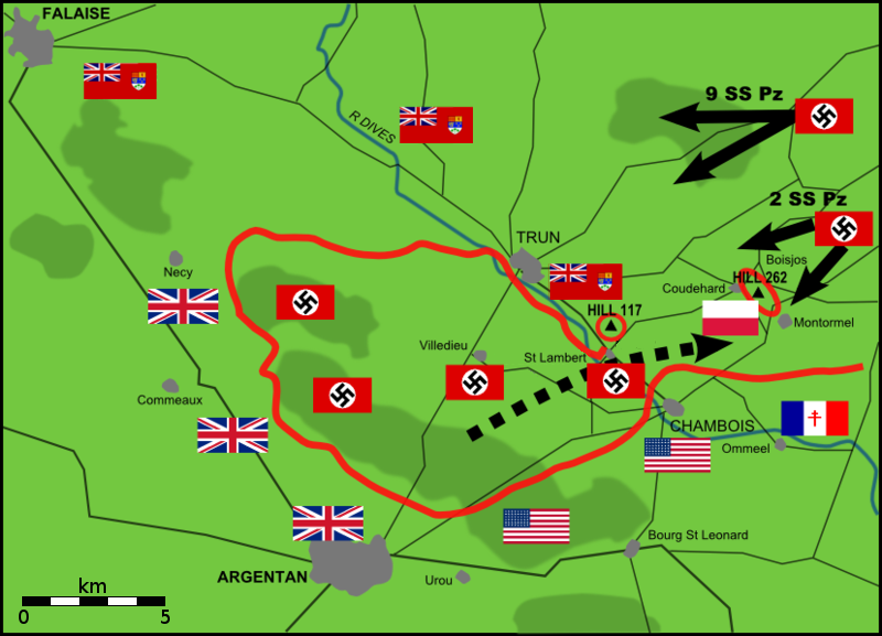 Map of German counterattacks, 20 August 1944, on Polish position on Hill 262, north-east of Chambois, Falaise Pocket, Normandy